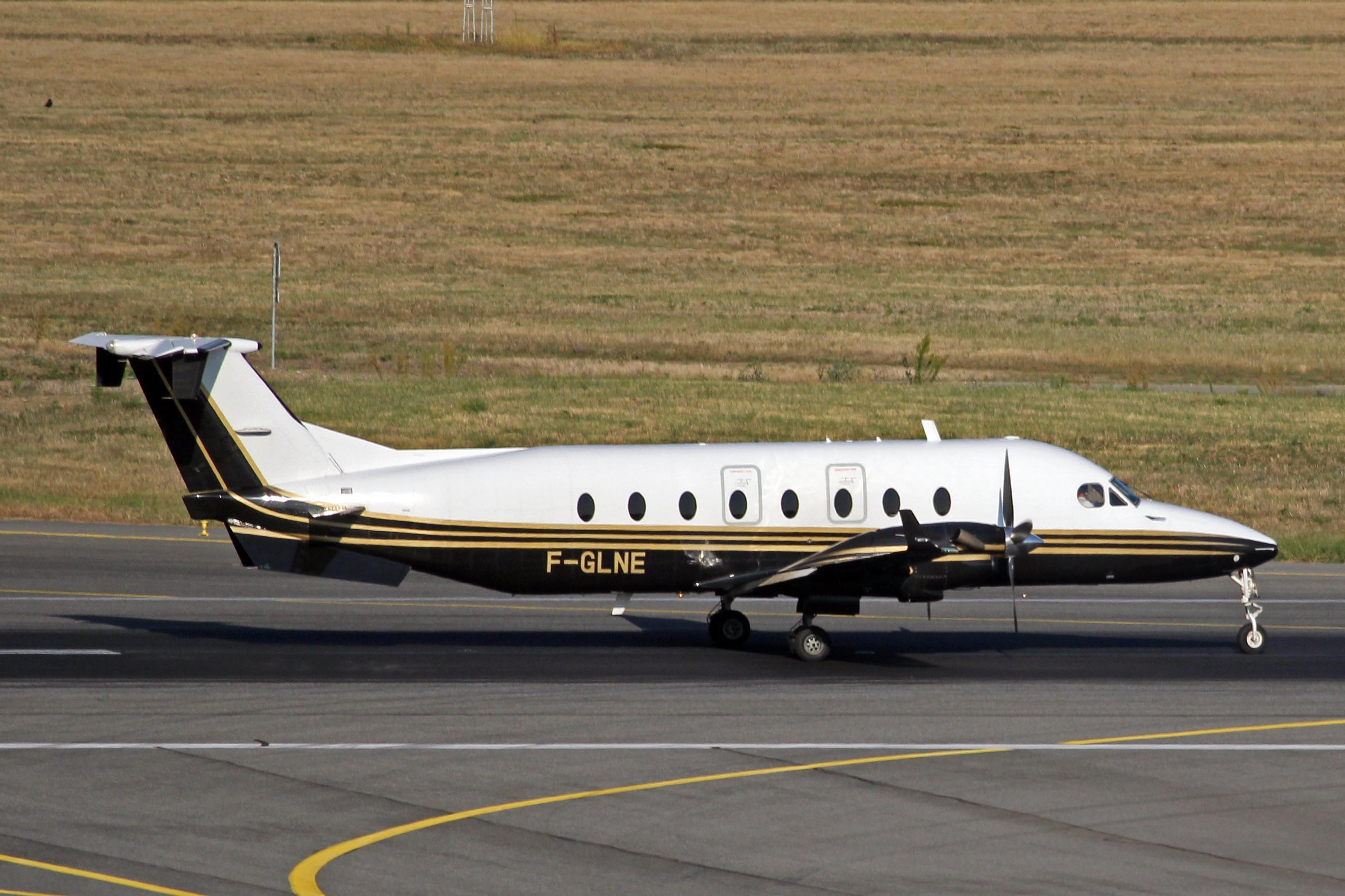 A picture of an airplane (name of it is on the file name).